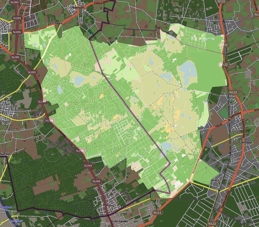 This map may be incomplete, and may contain errors. Don't rely solely on it for navigation.